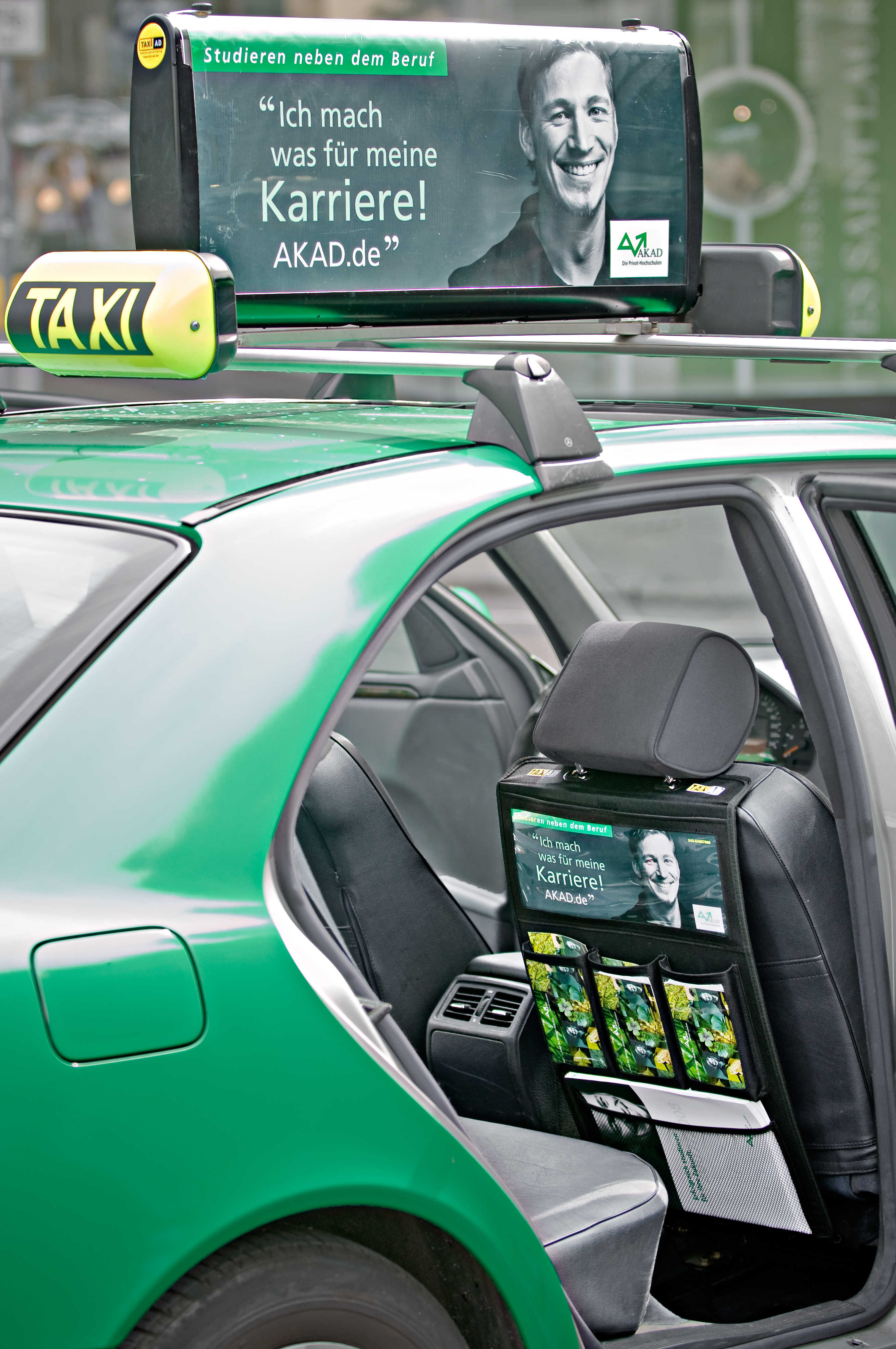 Taxi-advertising: Full Wrap and Inddor Advertising